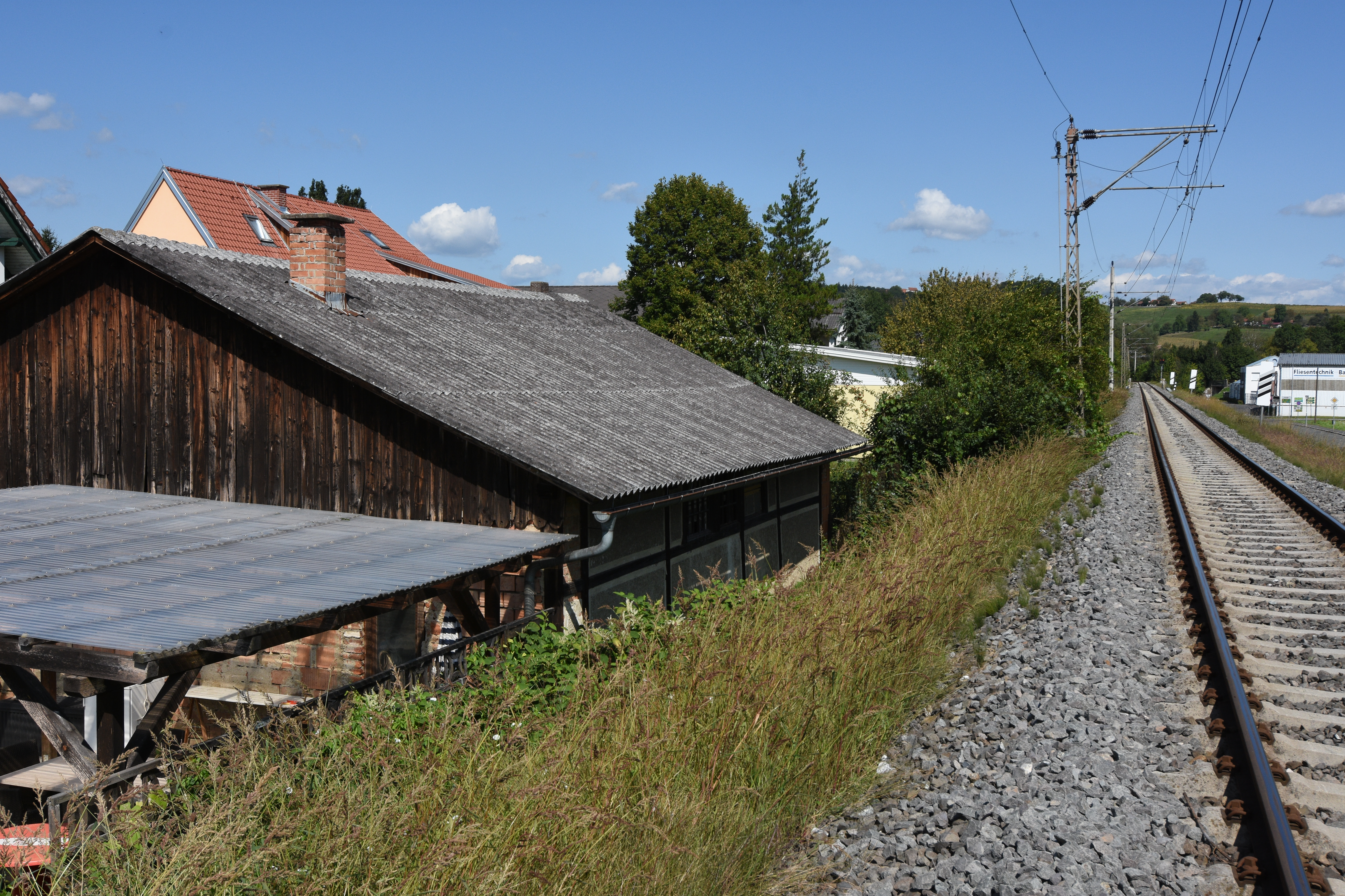 baracks, sheds, war camp at Feldbach, Styria. Backside of Franz-Seiner-Gasse 8.